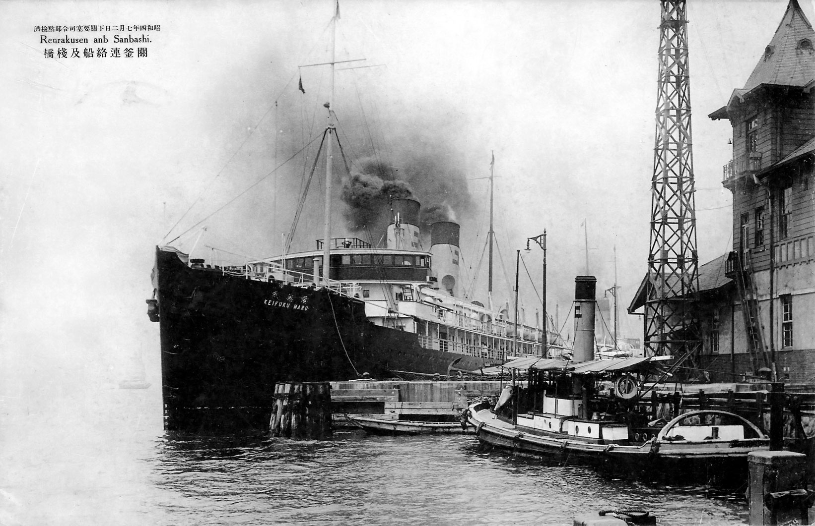 Japanese Government Railways ferry Keifuku Maru (1922-1957) docked at the Railroad Wharf in Shimonoseki